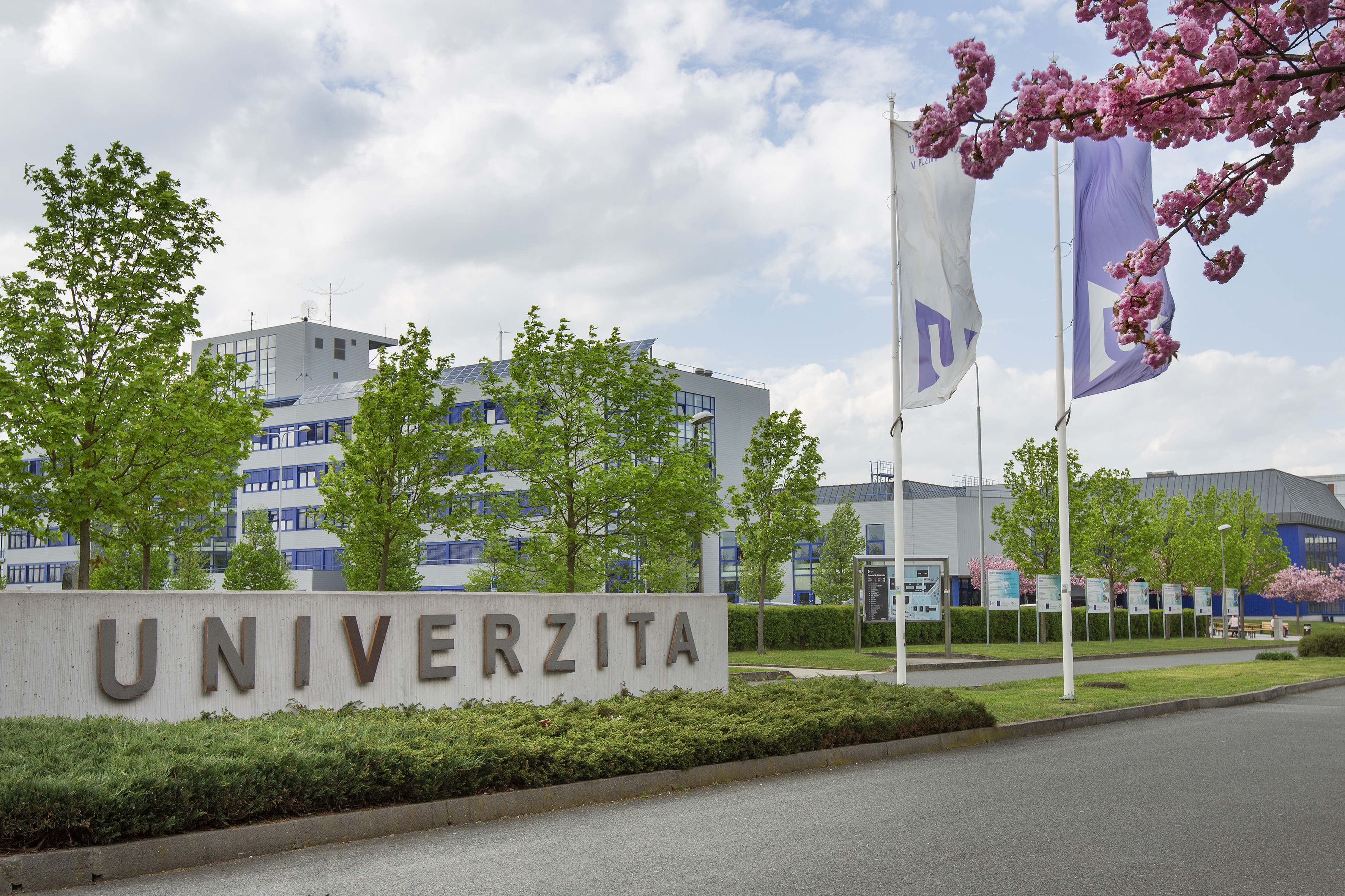 University of West Bohemia in Pilsen, Czech republic. Entrance to campus with lettering and flags. Picture made in spring, when sacura blossom.